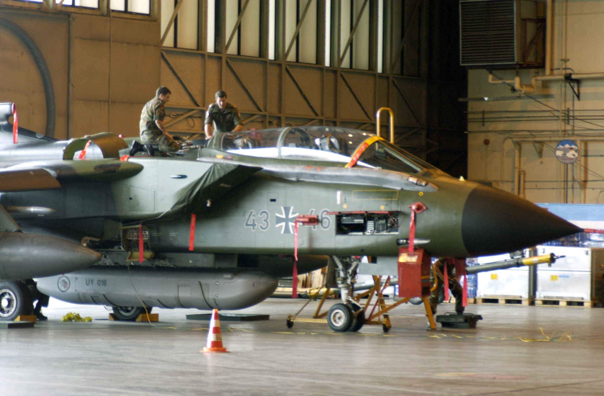 Luftwaffe maintenance technicians troubleshoot a problem on a GR-4 Tornado fighter-bomber aircraft before it takes off from Eielson Air Force Base (AFB), Alaska (AK), for a training mission during Exercise COOPERATIVE COPE THUNDER, the largest multinational air combat training exercise in the Pacific.